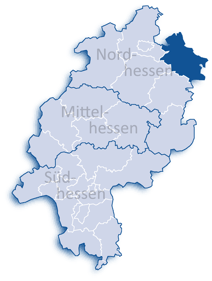 The map shows the district Werra-Meißner-Kreis. A district in Hesse